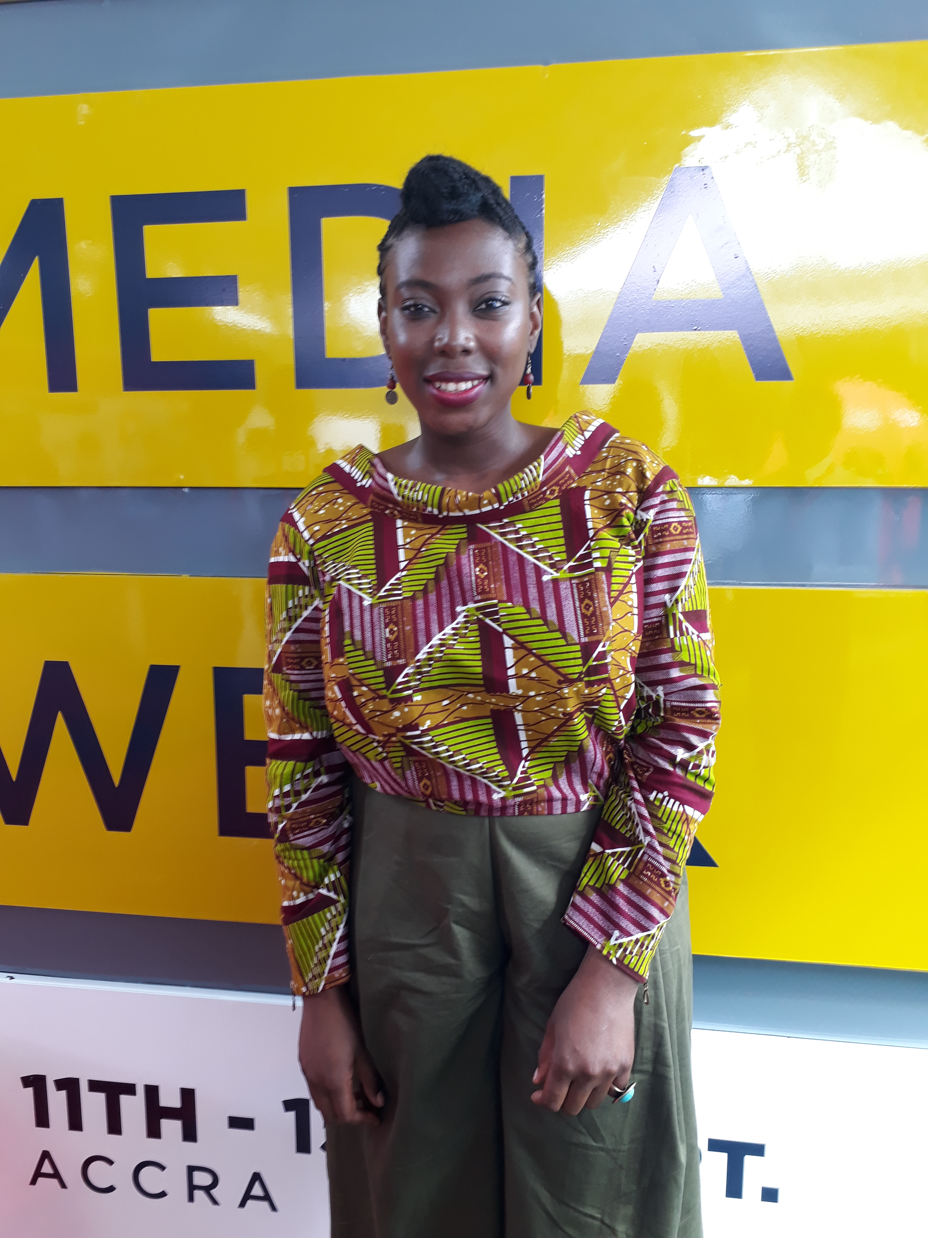 Jemila Wumpini Abdulai after her LinkedIn presentation at Social Media Week in Accra, Ghana